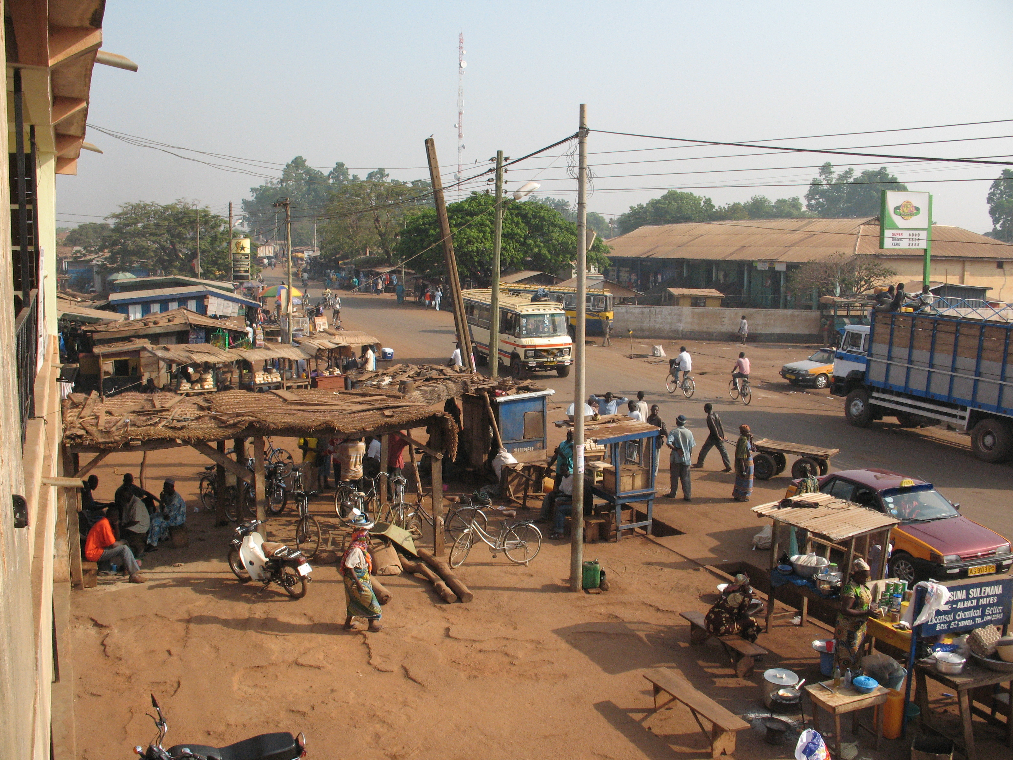 This picture is a view of the Bimbila-Gushiegu road taken in the centre of the city of Yendi (Northern Region, Ghana).